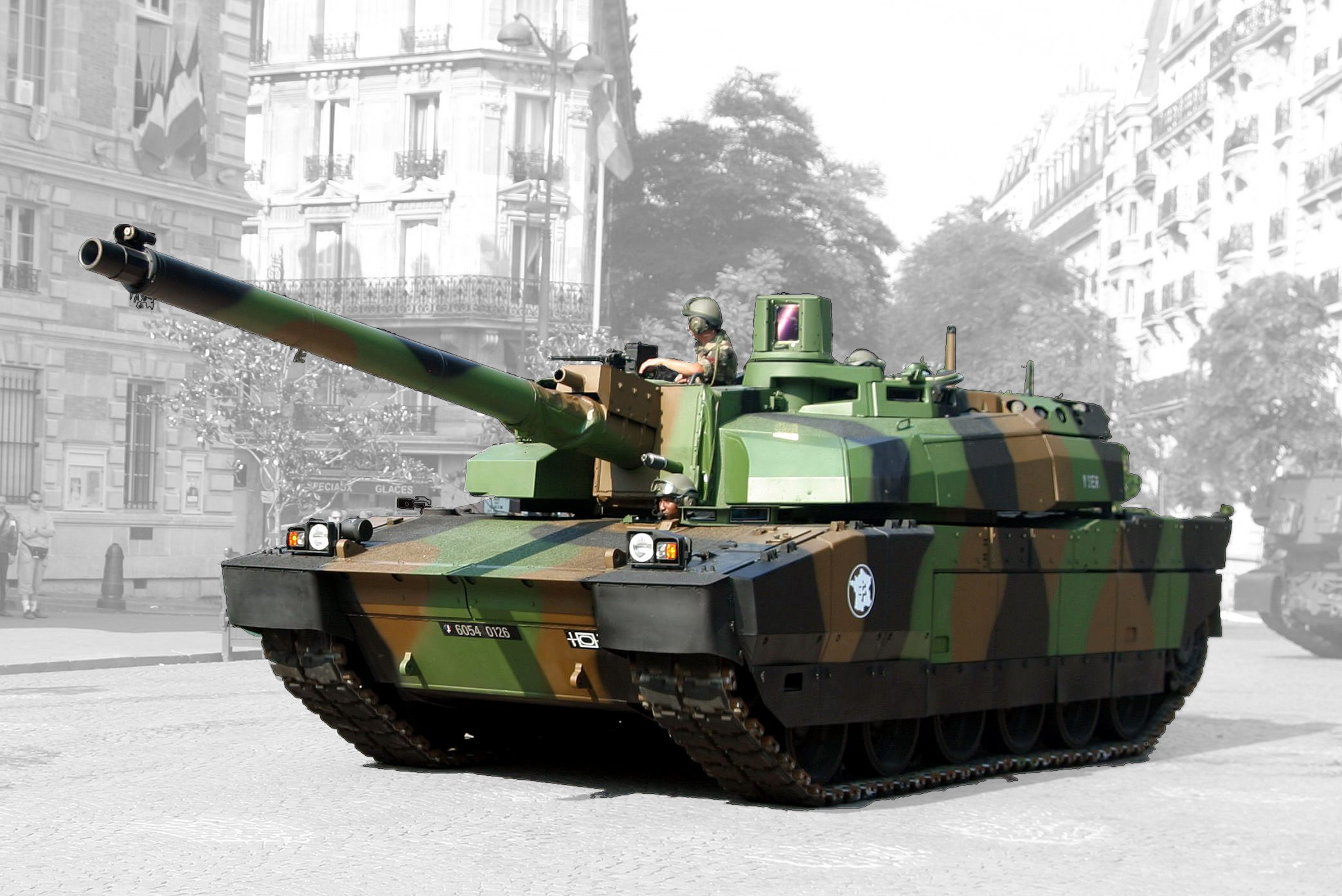 AMX-56 Nexter Leclerc. Demonstration of a Leclerc tank in Paris, on Bastille day 2006 (14th of July).